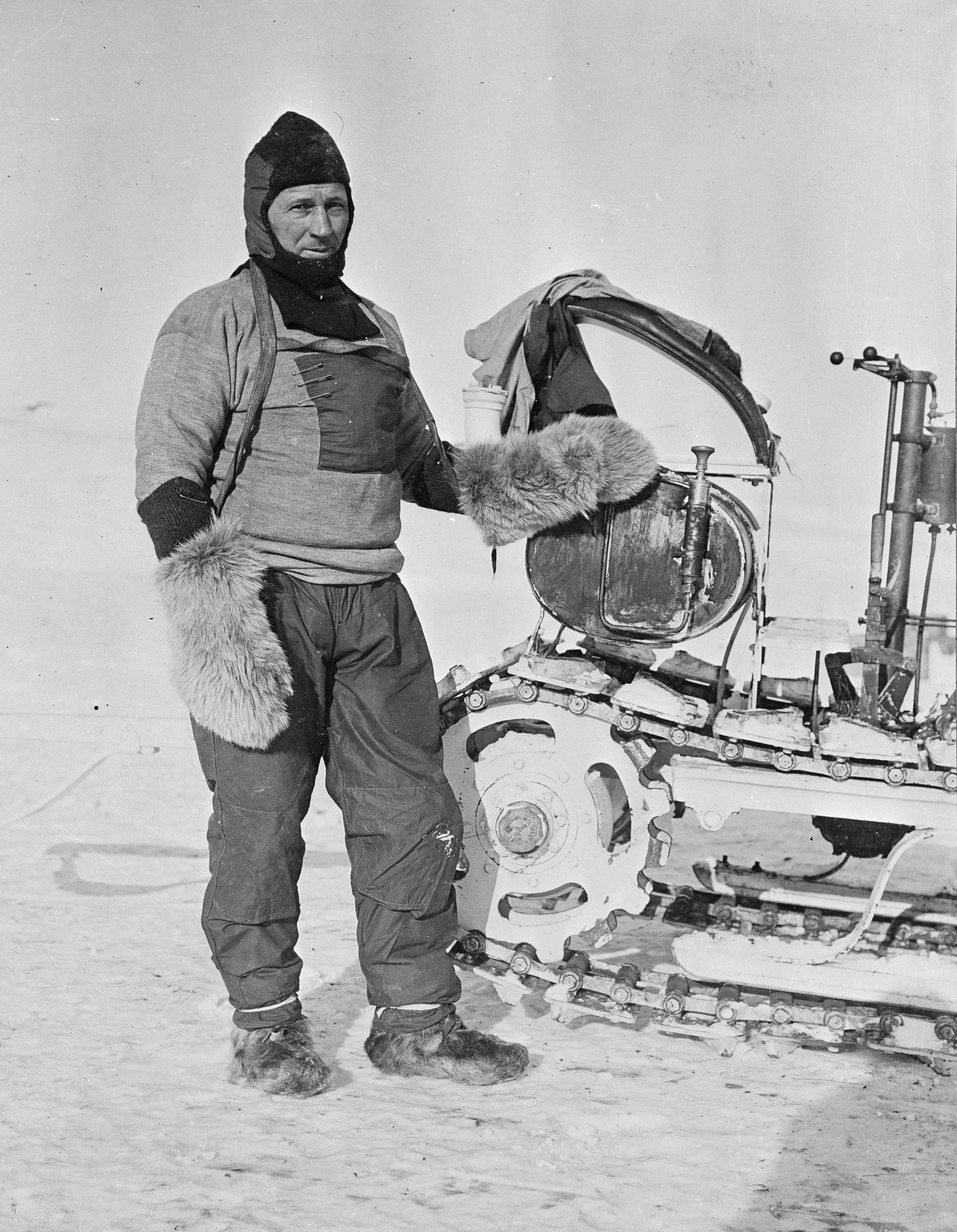 William Lashly standing by a Wolseley motor sleigh during the British Antarctic Expedition of 1911-1913, November 1911 Photographer: Herbert Ponting Reference Number: PA1-f-067-086-4 Silver gelatin print Photographic Archive, Alexander Turnbull Library Find out more about this image from the Alexander Turnbull Library.